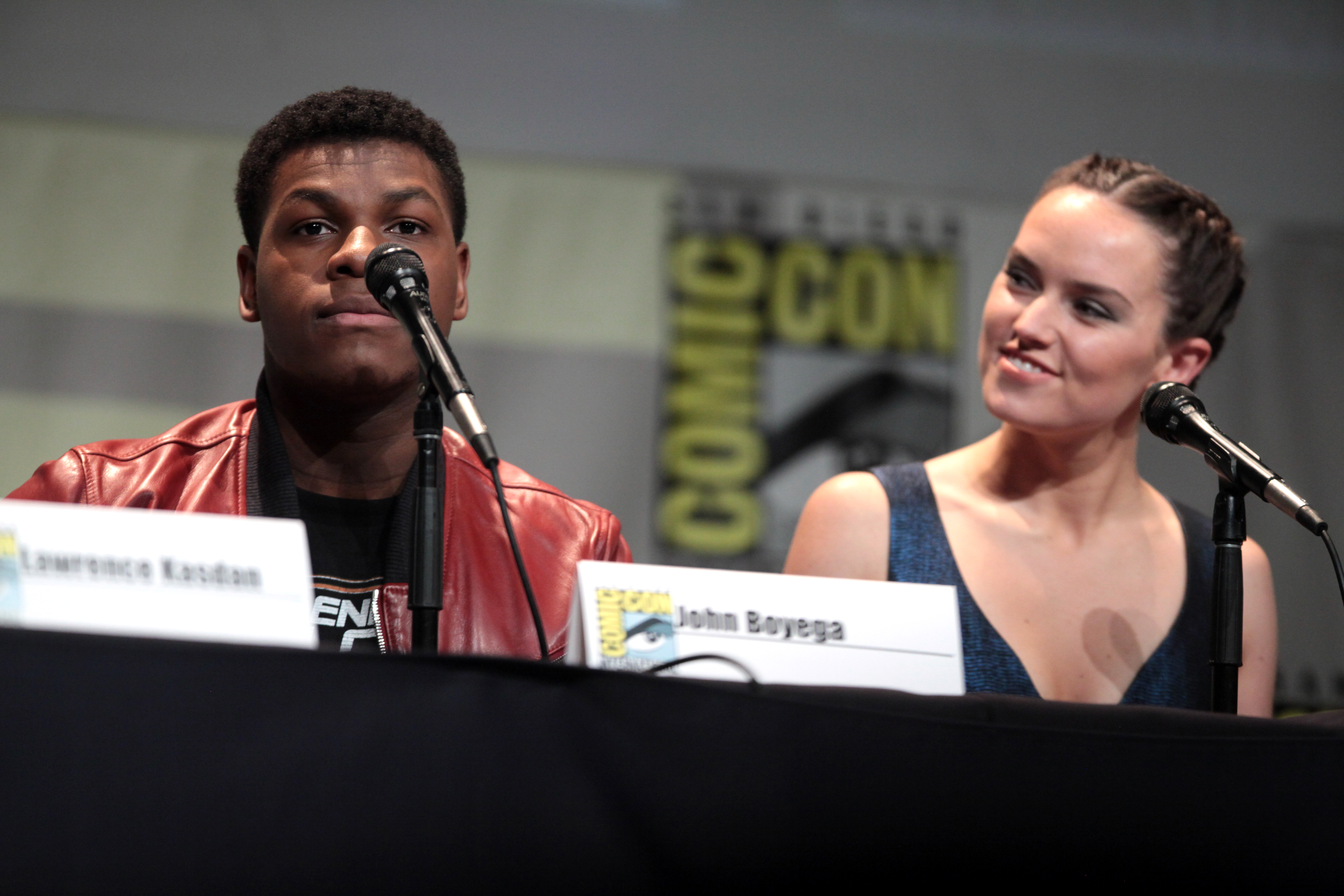 John Boyega and Daisy Ridley speaking at the 2015 San Diego Comic Con International, for "Star Wars: The Force Awakens", at the San Diego Convention Center in San Diego, California.